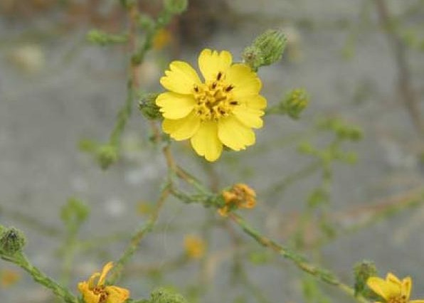 Deinandra conjugens - (former) syn Hemizonia conjugens — Otay Tarweed. Endemic to Otay Mesa area, of northern Baja California (Mexico) and southern San Diego County, Southern California (U.S.). USFWS photo, no copyright.